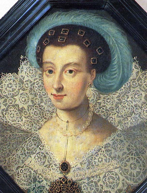 Queen Maria Eleanor of Sweden (1599-1655)